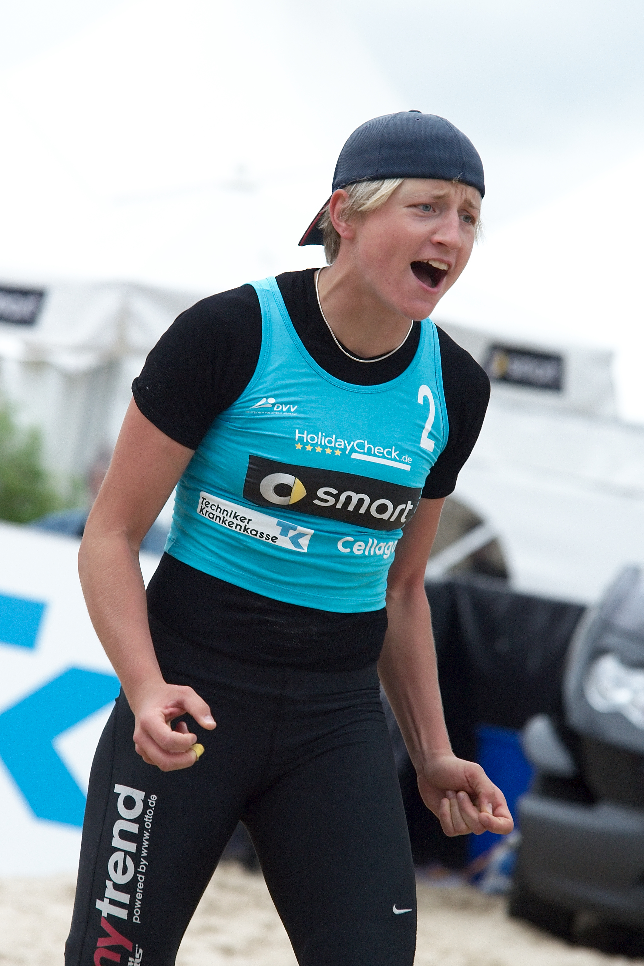 The German beach volleyball player Melanie Gernert at the Smart Beach Tour tournament in Cologne 2011.